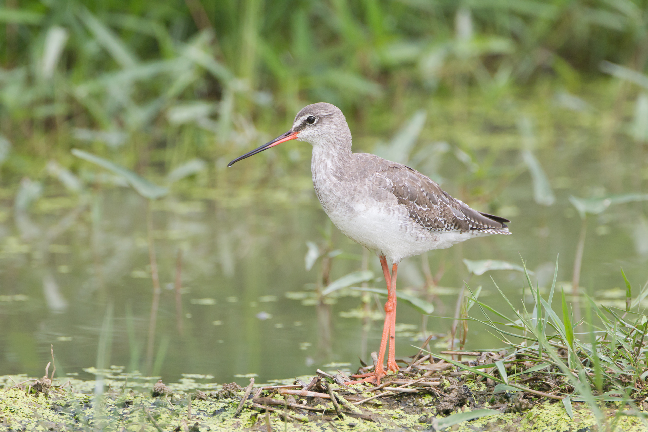 Spotted Redshank (Tringa erythropus), Laem Pak Bia, Petchaburi, Thailand